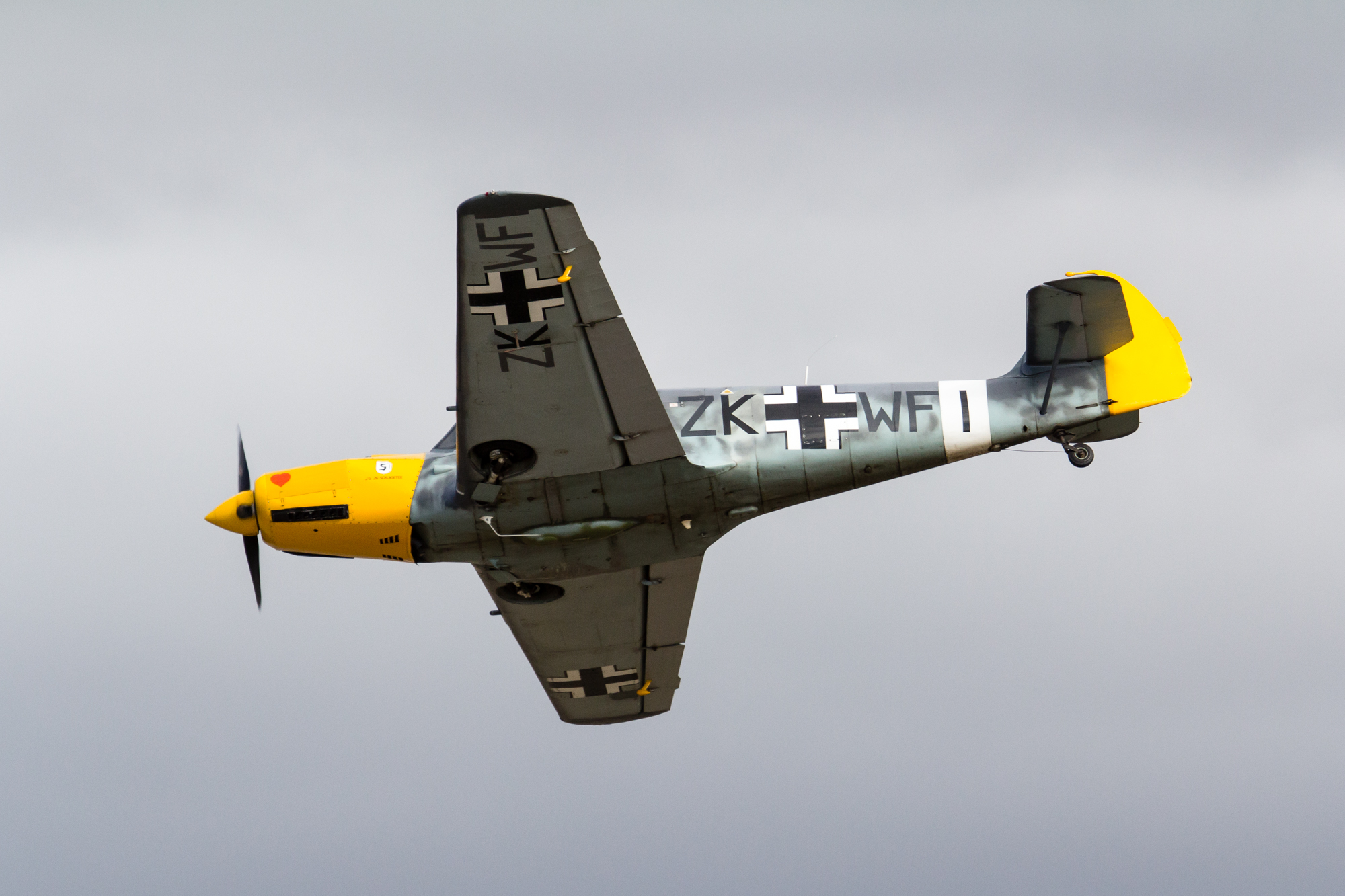 Classic Fighters 2015 - Nord 1002 Pingouin II ZK-WFI